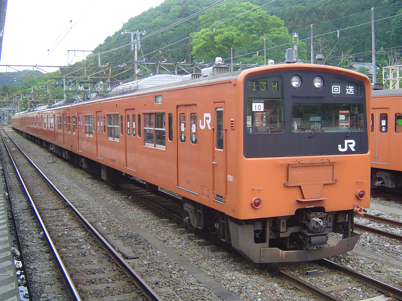 JR East 201 series H Train (6 cars part), taken at Ome Station